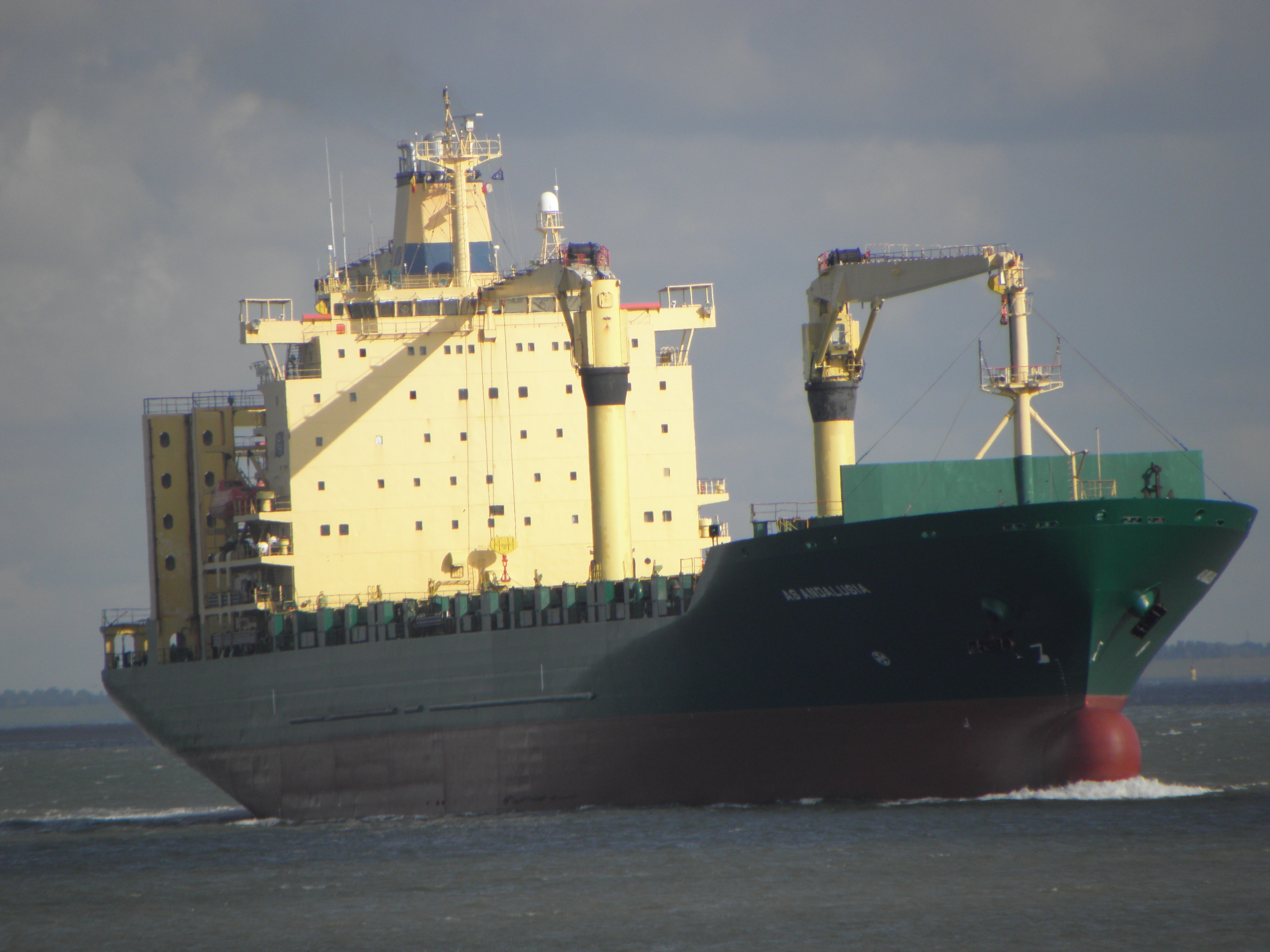 AS Andalusia I.M.O. number 9204984